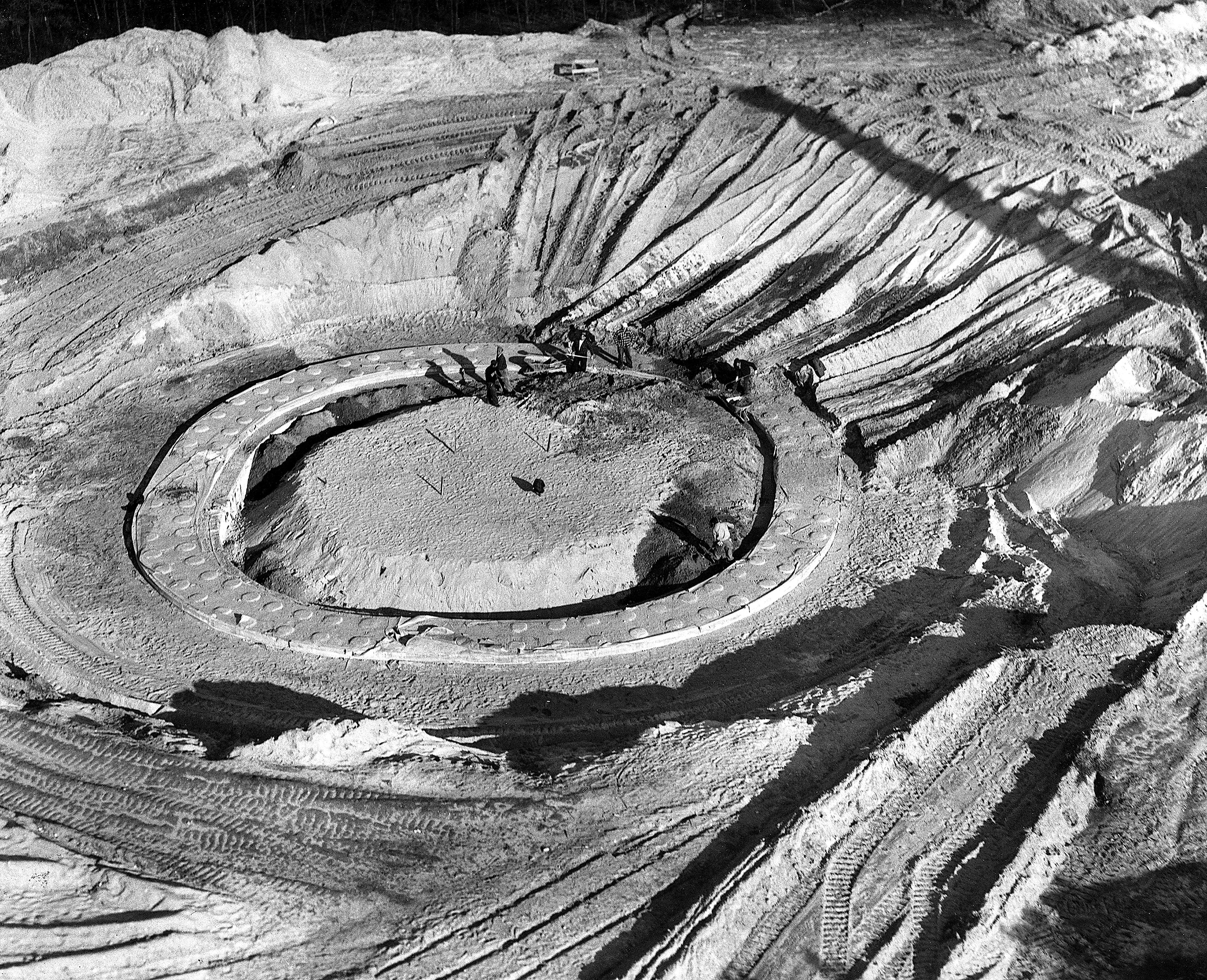 A view of the magnet ring foundation. c. 1949 For more information or additional images, please contact 202-586-5251.